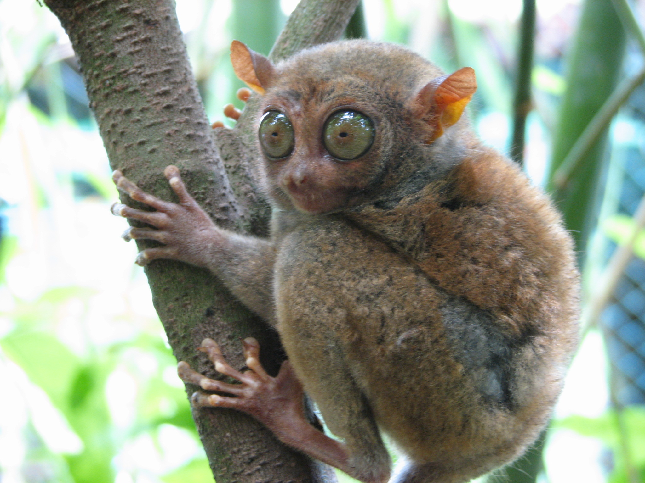 Philippine Tarsier (Carlito syrichta), one of the smallest primates. This one is about 5 inches long with a tail longer than its body. Photo taken in Bohol, Philippines.